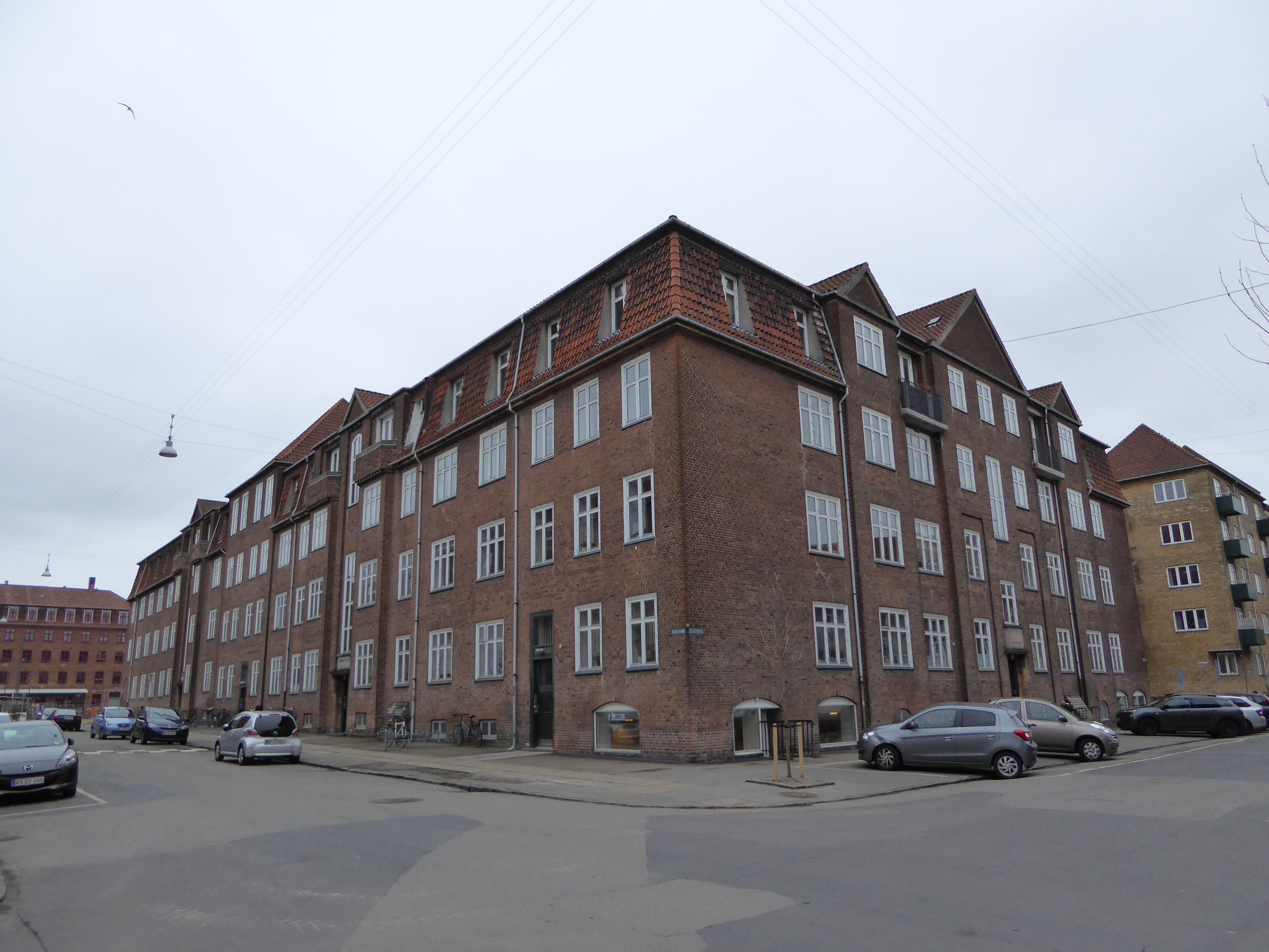 The housing cooperative A/B Brynhilde at the corner of Valkyriegade and Brynhildegade in Nørrebro in Copenhagen.